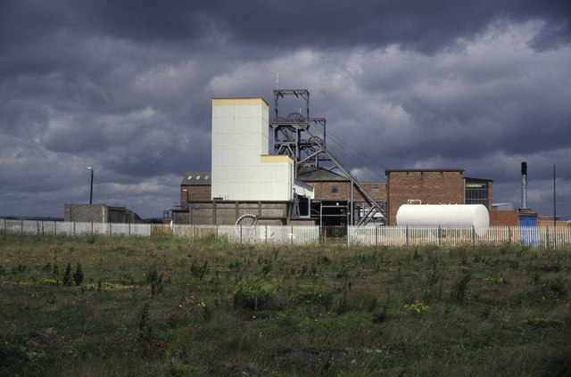 Ellington Colliery Location might need adjusting and direction is unknown